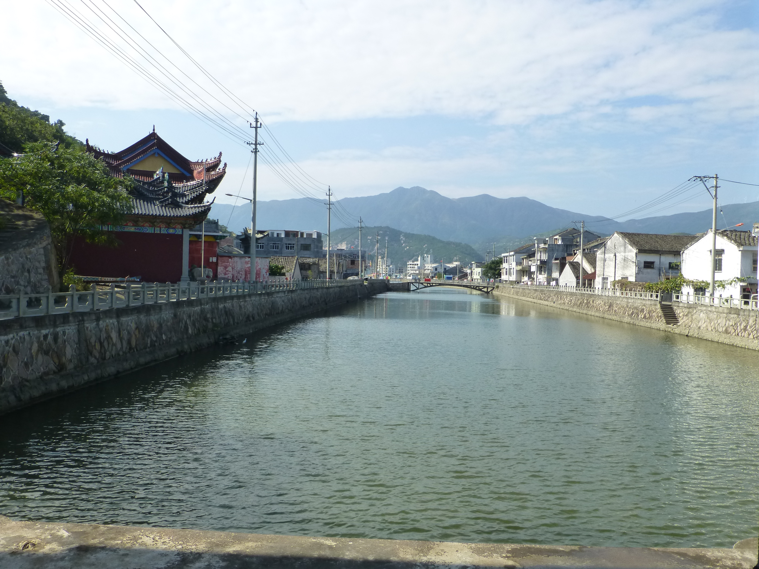 The central area of Mazhan Town (Cangnan County, Zhejiang, China.)